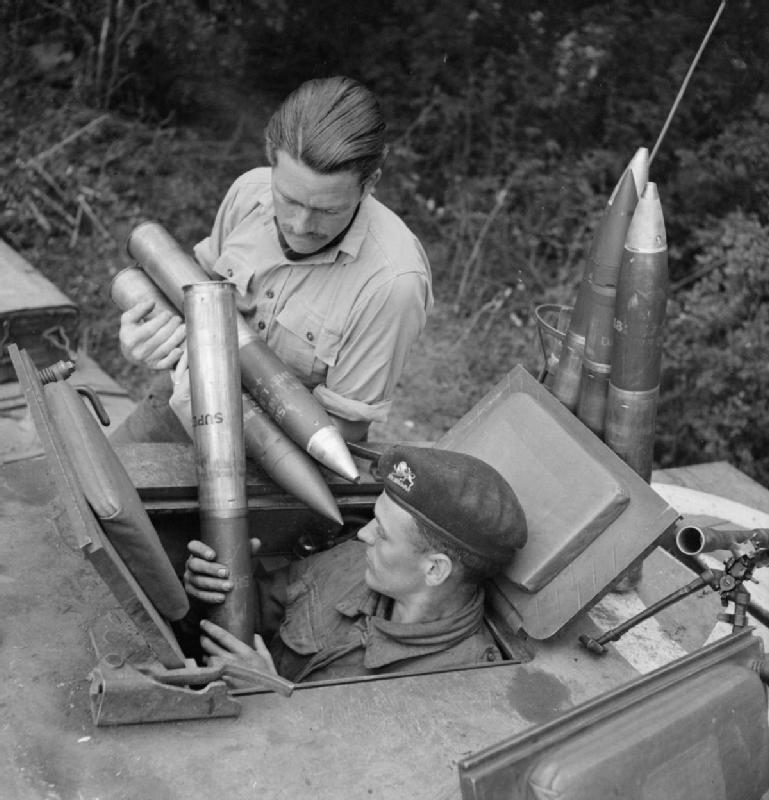 Lt J Fathergill, CO of 'B' Squadron, 107th Regiment Royal Armoured Corps, 34th Tank Brigade, assists his gunner loading ammunition for the 75-mm gun into the turret of his Churchill tank.